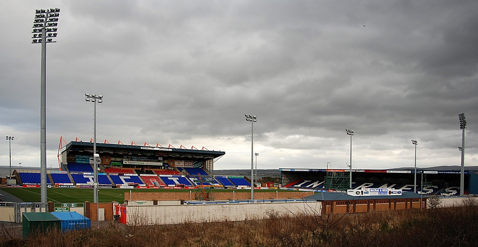 Caledonian Stadium in town of Inverness (Scotland-Great Britain)